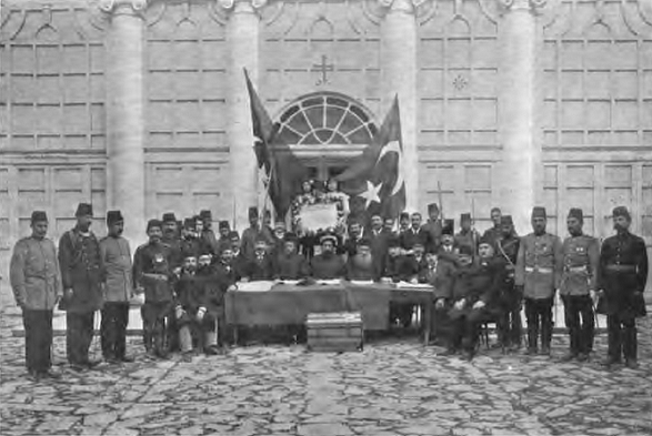 Young Turk Revolution Declaration - Armenian, Greek Orthodox & Muslim religious leaders